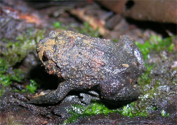 Rhombophryne coudreaui Betampona Strict Nature Reserve